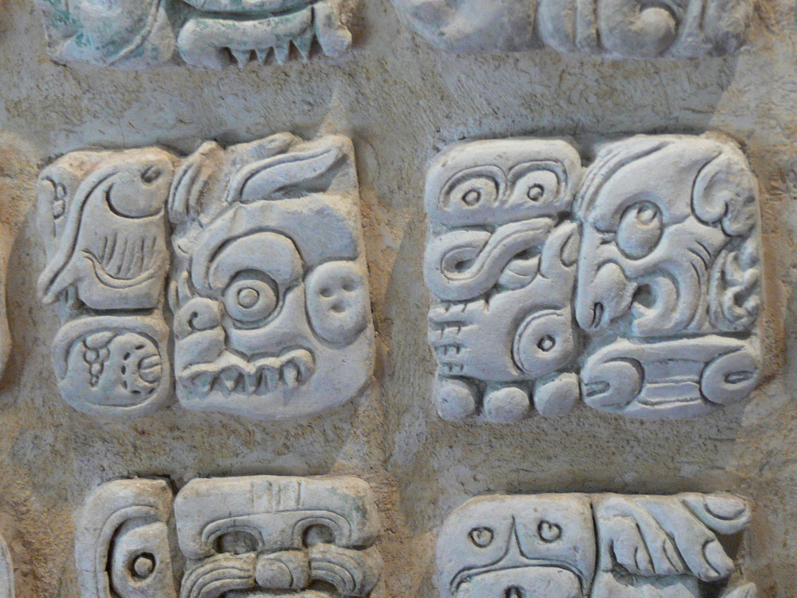 Palenque ( Chiapas ) - Museo del sitio. Maya glyphs